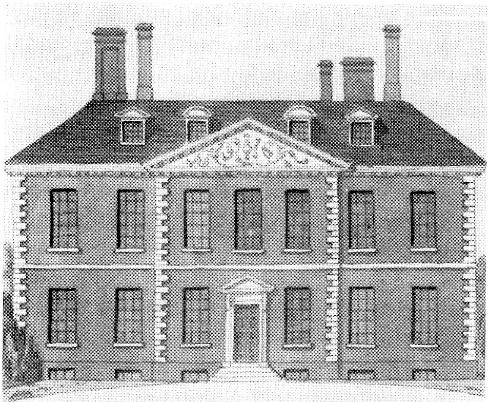 Moreton Hall, Chiswick, in 1807 when it belonged to Robert Stevenson and five years before it was demolished. Built 1682-6 by Sir Stephen Fox (1627-1716), Paymaster-General of His Majesty's Forces, later renamed Moreton Hall after a later owner.